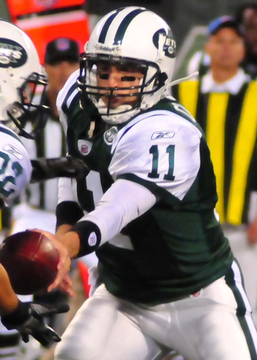 Kellen Clemens handing off the ball